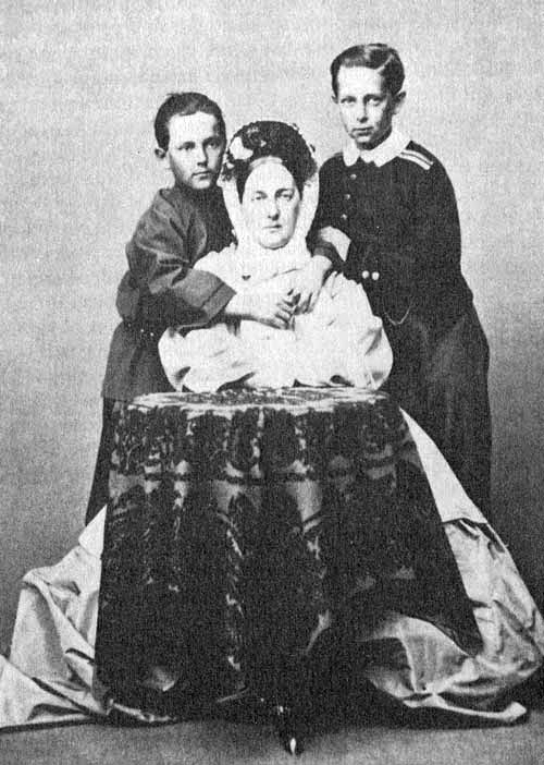 Grand Duchess Maria Nikolaievna, with her sons Nicholas and Sergei